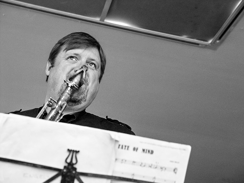 Joel Frahm in Aarhus, Dnmark 2013